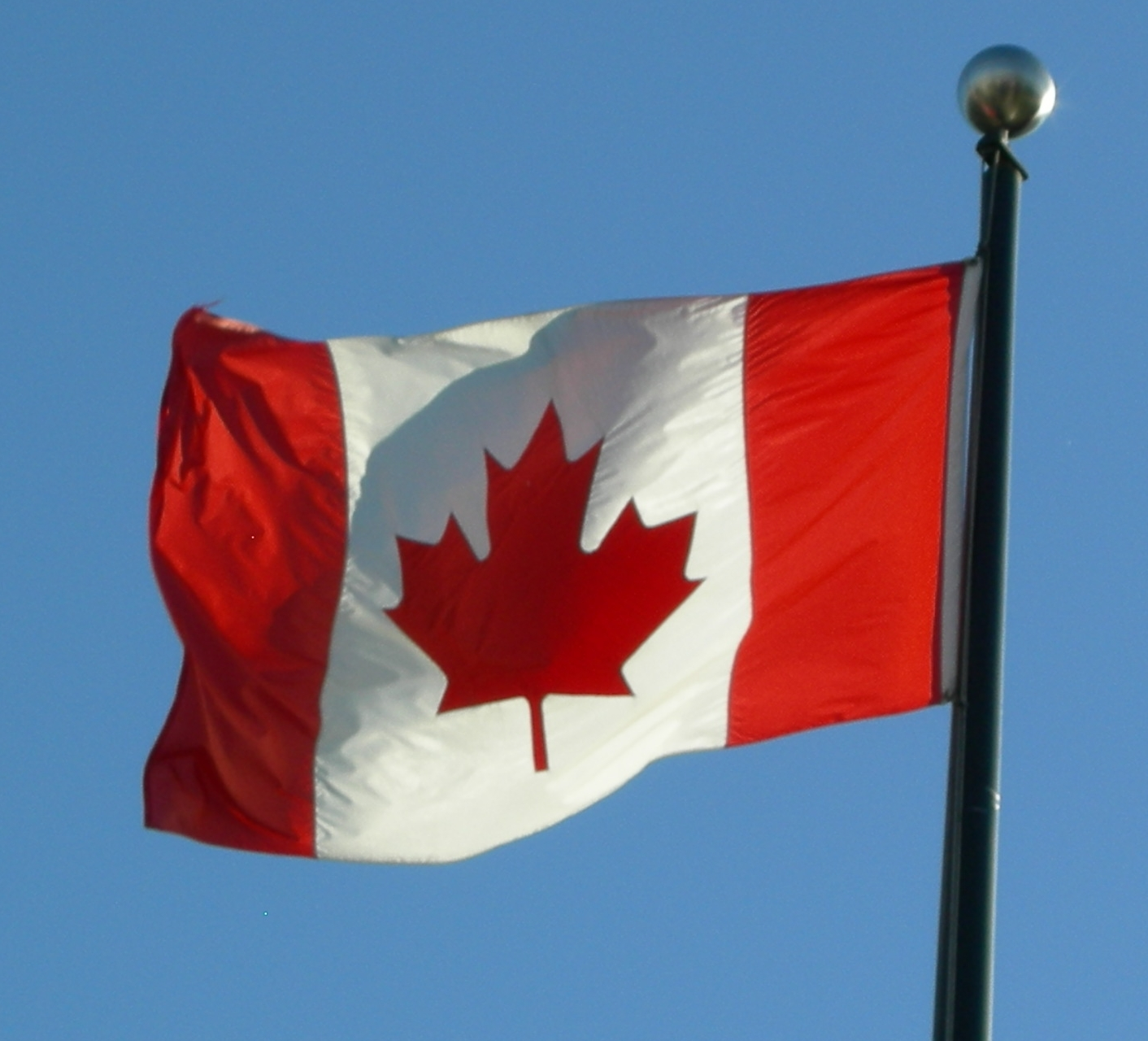 Flag of Canada flying in the wind, taken by the uploader. Licensed under the GFDL and CC-BY-SA 2.5 (and older).